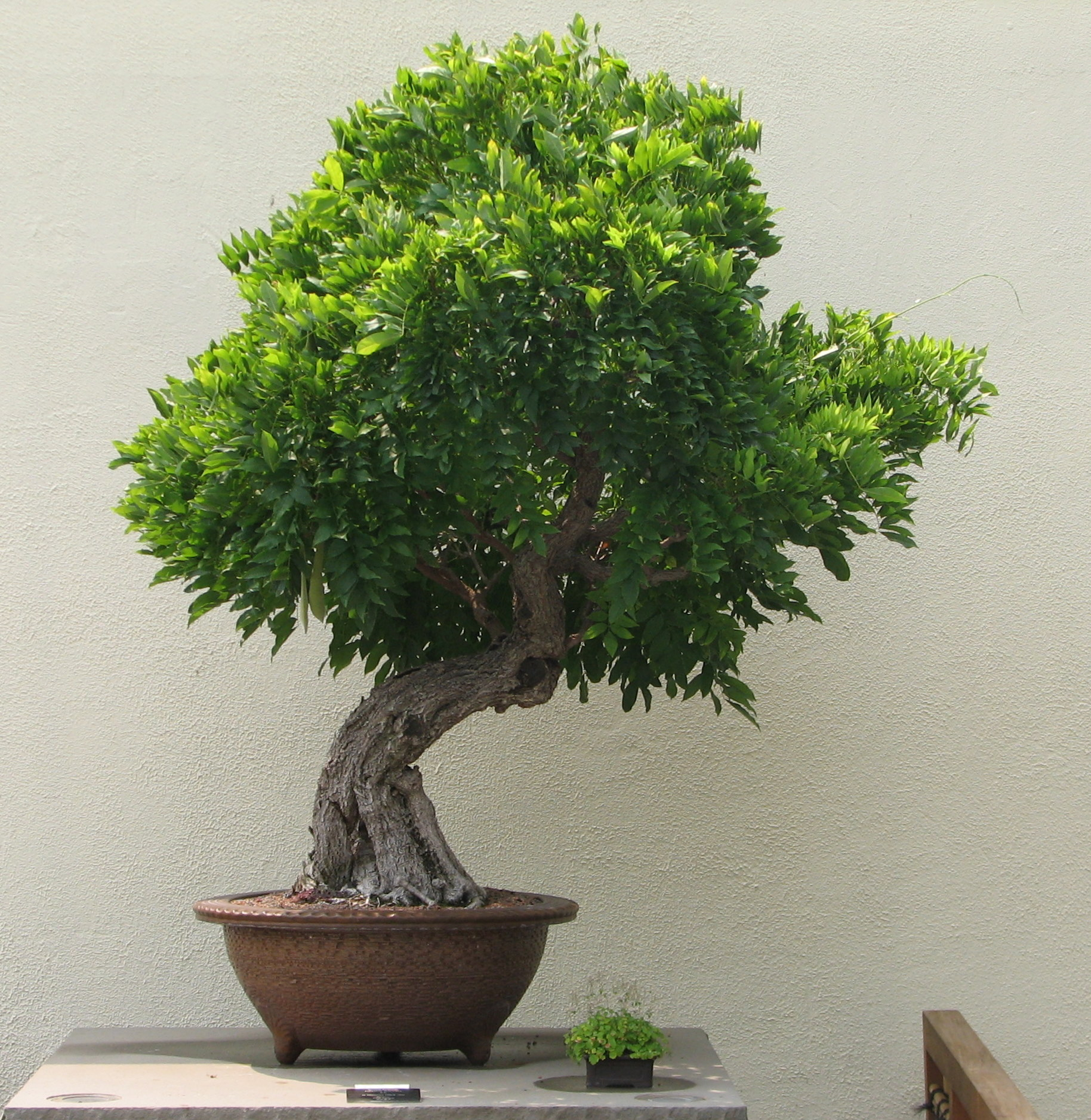 A Japanese Wisteria (Wisteria floribunda) bonsai on display at the National Bonsai & Penjing Museum at the United States National Arboretum. According to the tree's display placard, it has been in training since 1925. It was donated by Kihei Tamura.